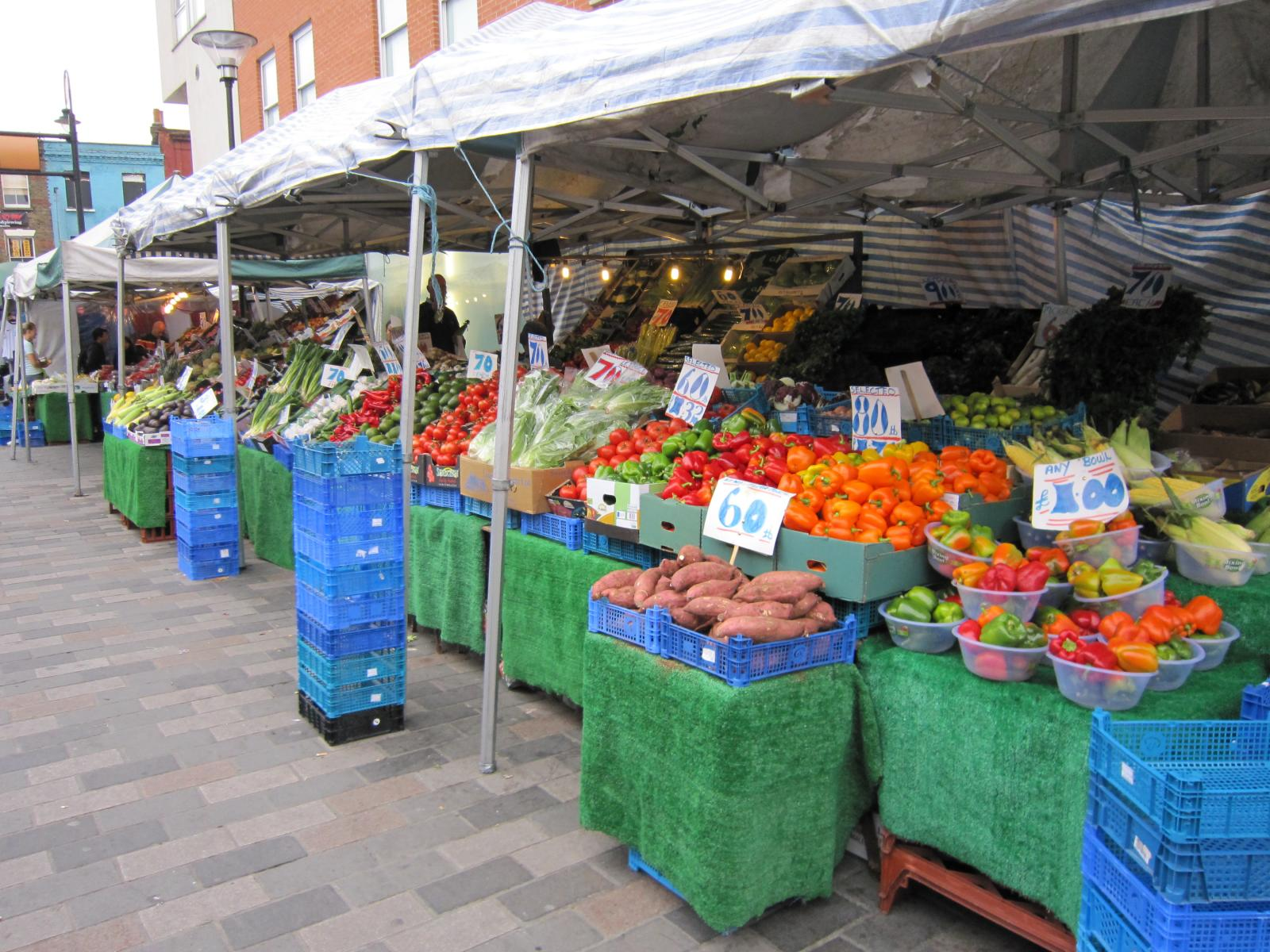 Inverness Street Market fruit & veg stall taken on 11 September 2010